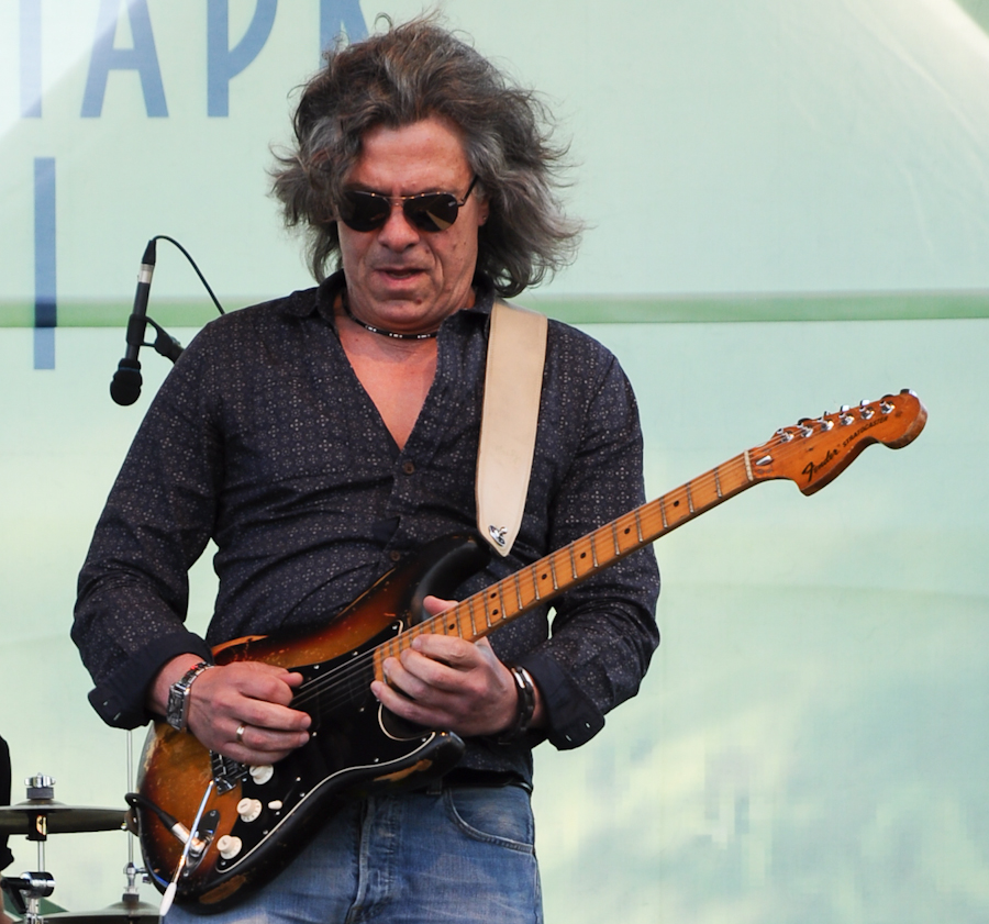 The Bulgarian rock guitarist Ivan Lechev performing with Dirty Purchase band at "A to Z" fest, South Park, Sofia, Bulgaria.